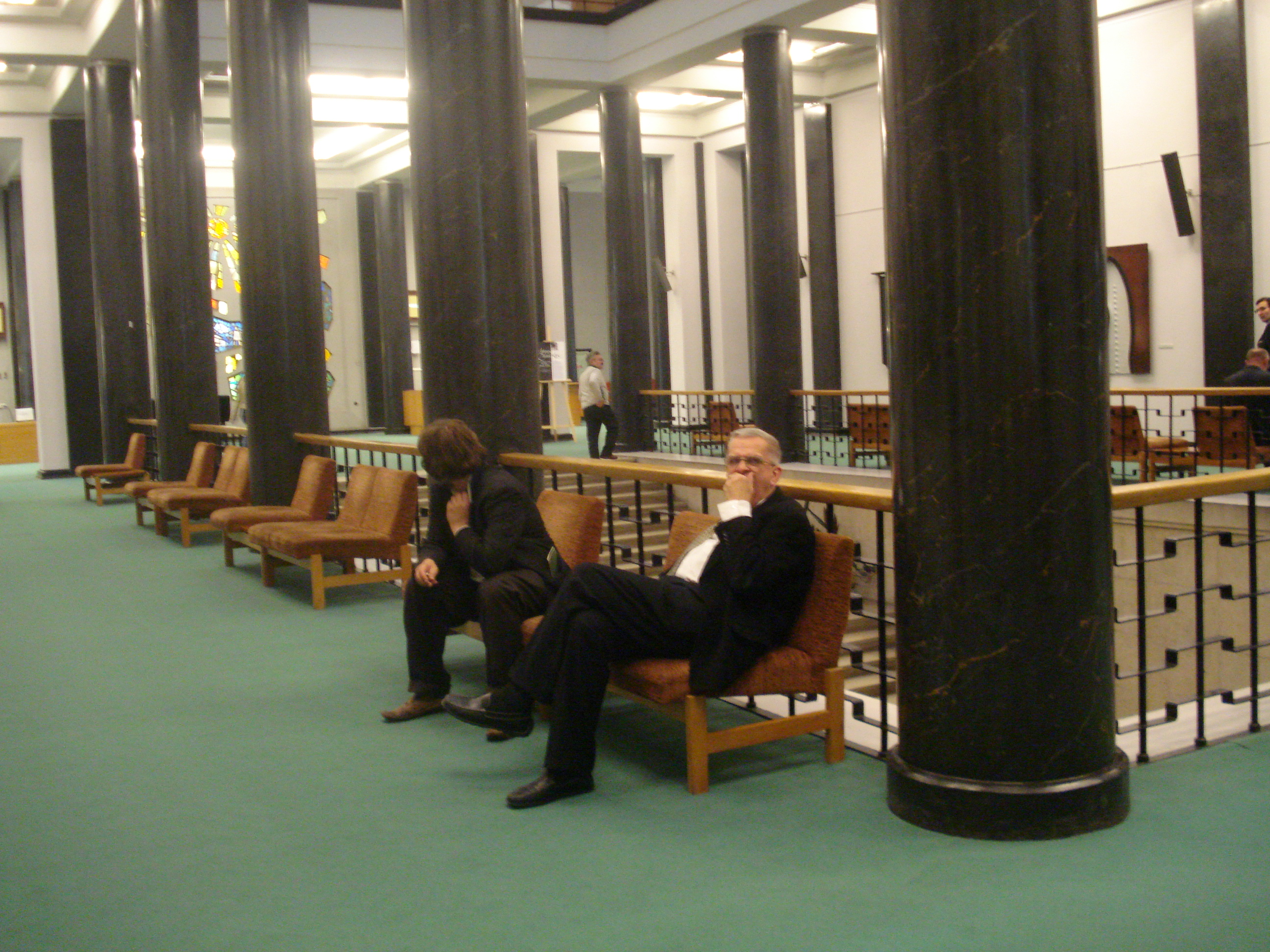 Martynas Mazvydas National Library of Lithuania in Vilnius. Interior (Gedimino pr. 51). Building projected and constructed in 1959-1963. Architect Viktor Anikin, engineer Ciprijonas Strimaitis.